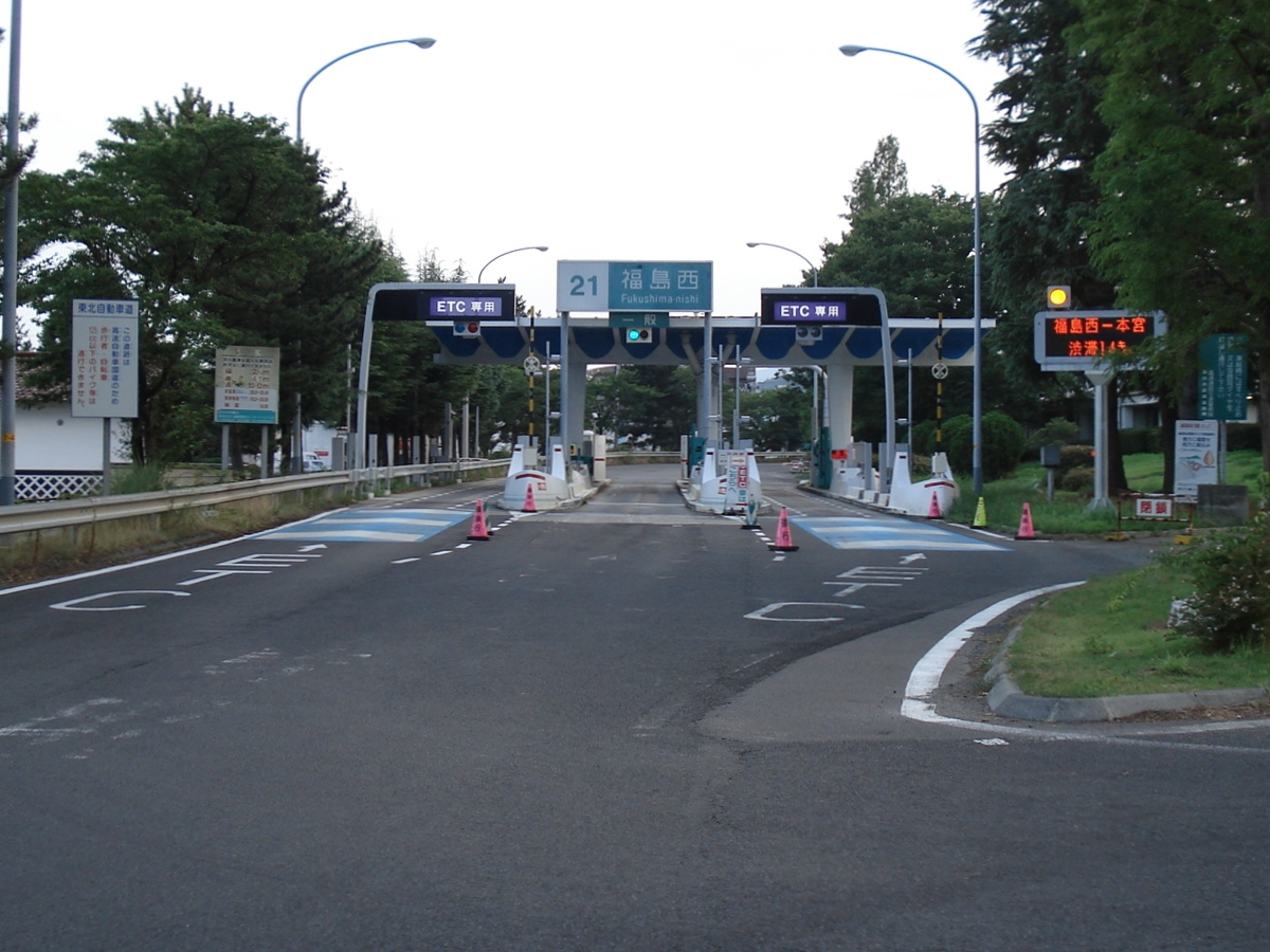 This Interchange, Fukushima-Nishi Interchange, is on Tohoku Expressway, in Fukushima city, Fukushima Prefecture, Japan.